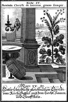 Picture of the lamp on a stand and the parable of the growing seed, from "Biblia ectypa : Bildnussen auss Heiliger Schrifft Alt und Neuen Testaments"